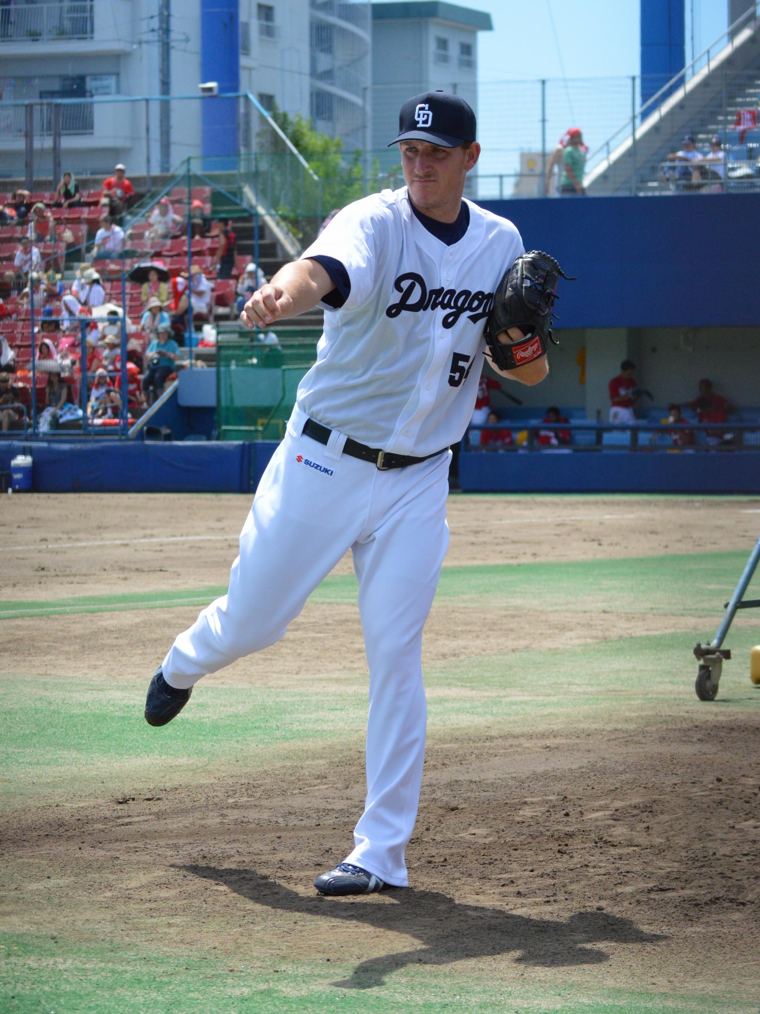 Drew Naylor, pitcher of the Chunichi Dragons, at Nagoya Stadium